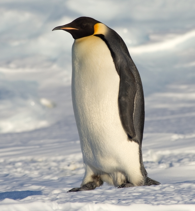 Emperor Penguin in Adelie Land, Antarctica